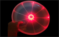 Flashflight light-up flying disc